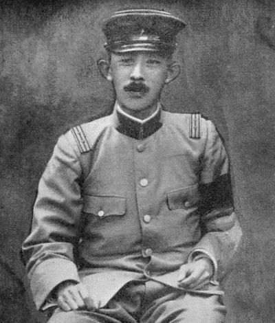 Tsunasada Kuchiki (Viscount)